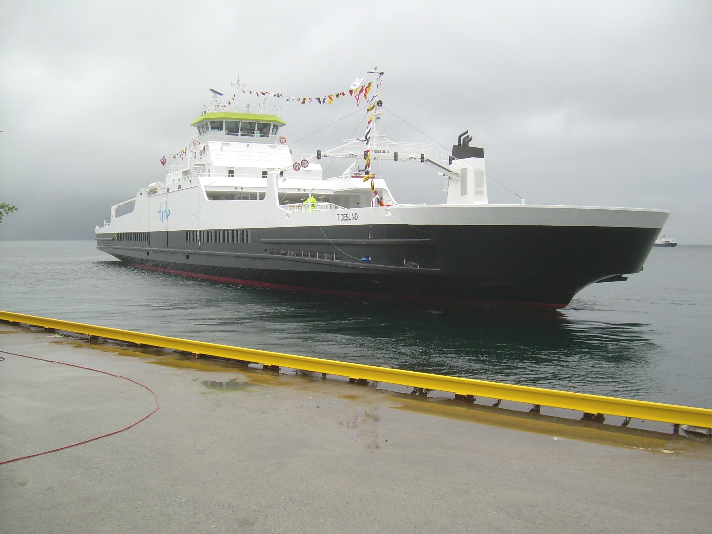 M/F Tidesund christened at Hareid 21. June 2008 together with twin vessel M/F Tidefjord. Both 120-pbe ferries, the largest ferries in the Tide fleet. IMO No: 9419216 Length: 114m Breadth: 17m Speed: 12.6 knots Callsign: LAOA MMSI: 258221500